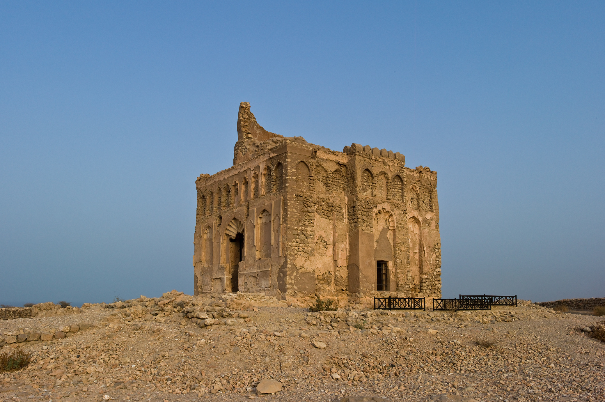 This Mausoleum was built for Baha al-Din Ayaz, successor Mahmud b. Ahmad al-Qusi al-Qalhati the founder of the Hormuz empire which flourished in the 8th/14th century. The mausoleum was built by the wife of Baha al-Din, Maryam, and is thus call the Bibi Maryam mausoleum. It is located on the Omani coast south of Muscat near the medieval city of Qalhat. The city was described by Marco Polo and visited by Ibn Battuta in the second quarter of the fourteenth century. Ibn Battuta describes a Congregational Mosque in Qalhat which some scholars think he confused with the Bibi Maryam mausoleum.